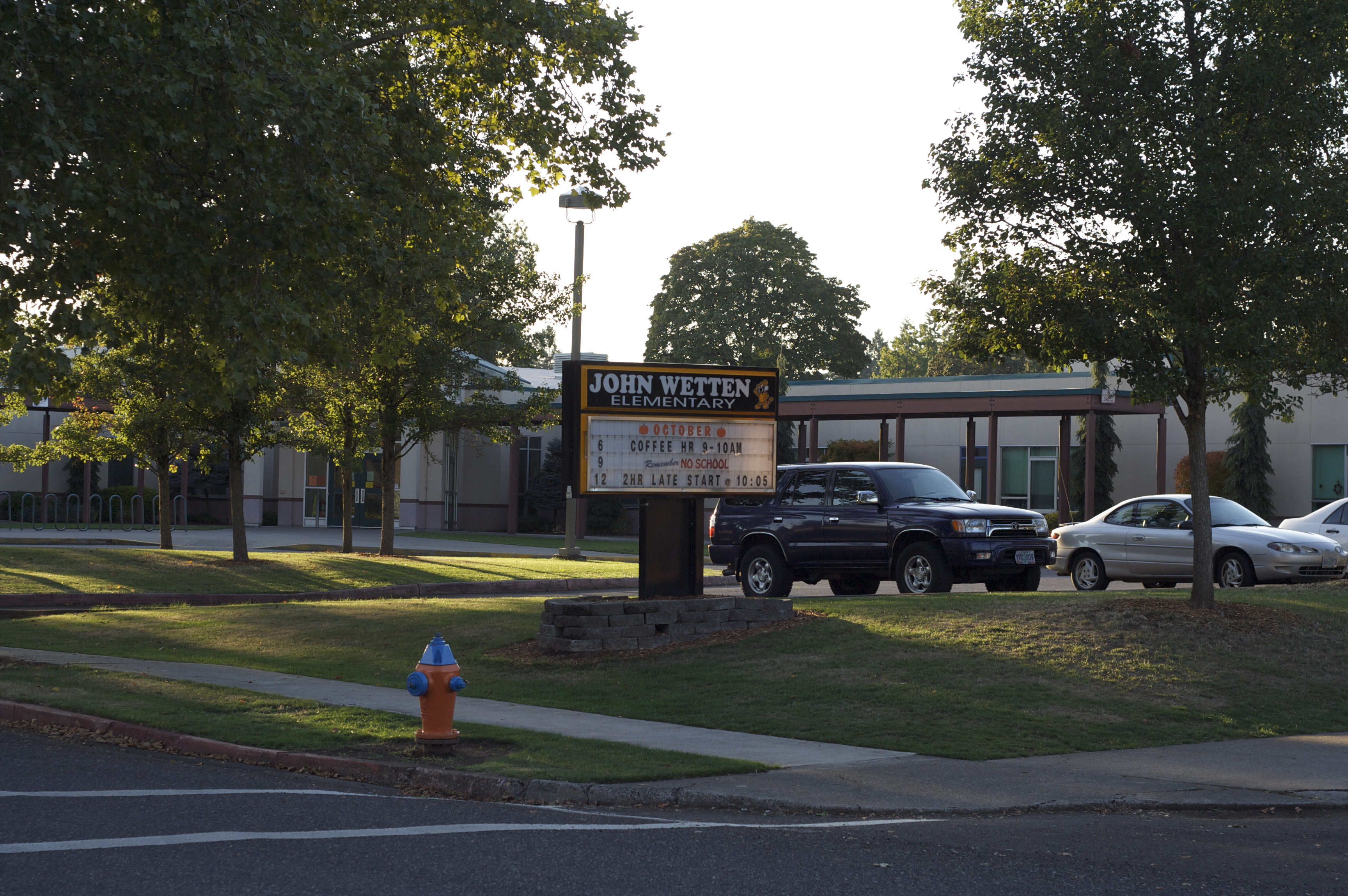 Picture of John Wetten Elementary in Gladstone, Oregon.